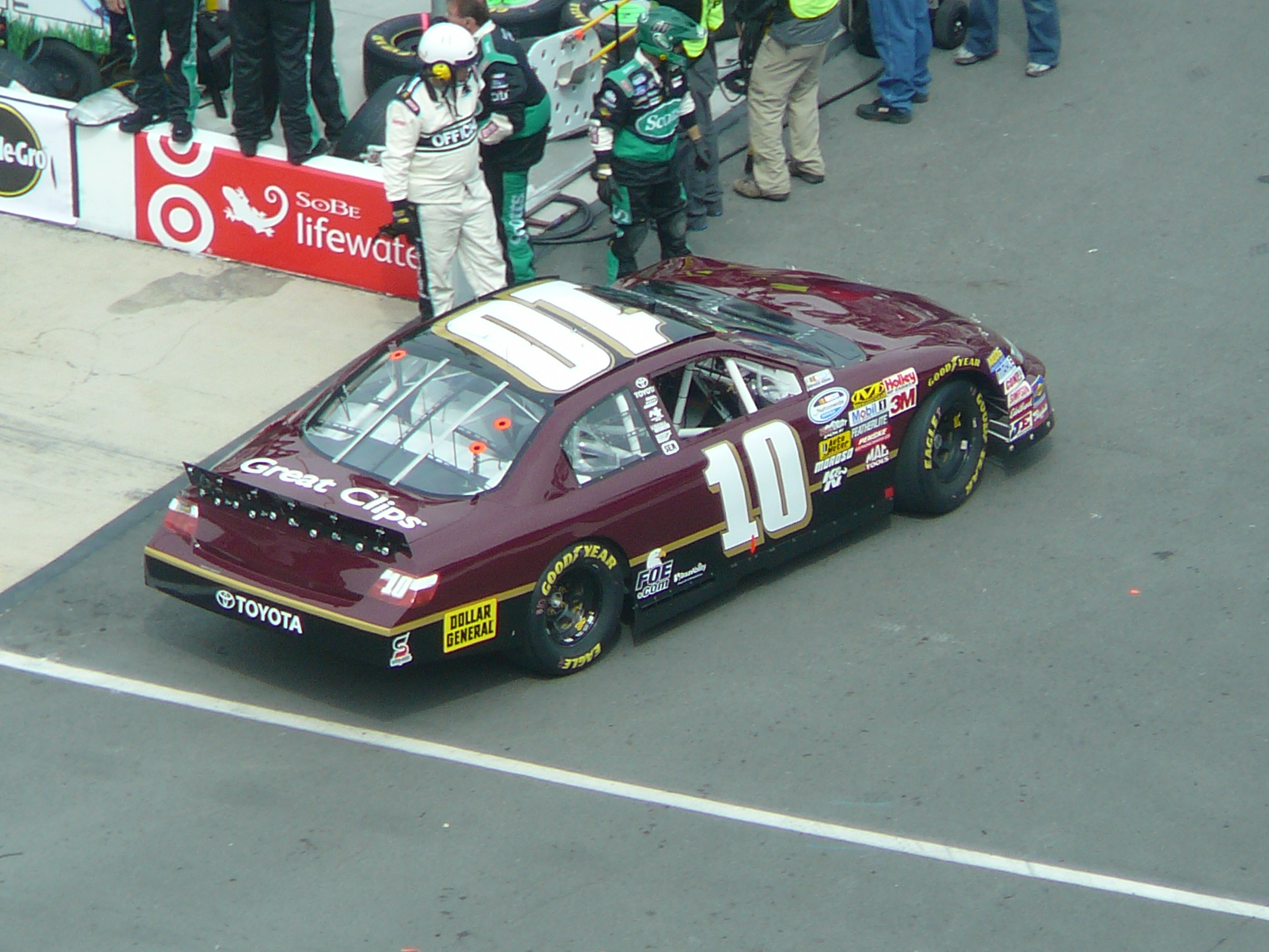 Kelly Bired pulling the #10 Toyota into the grage at the 2009 Bristol Nationwide Race